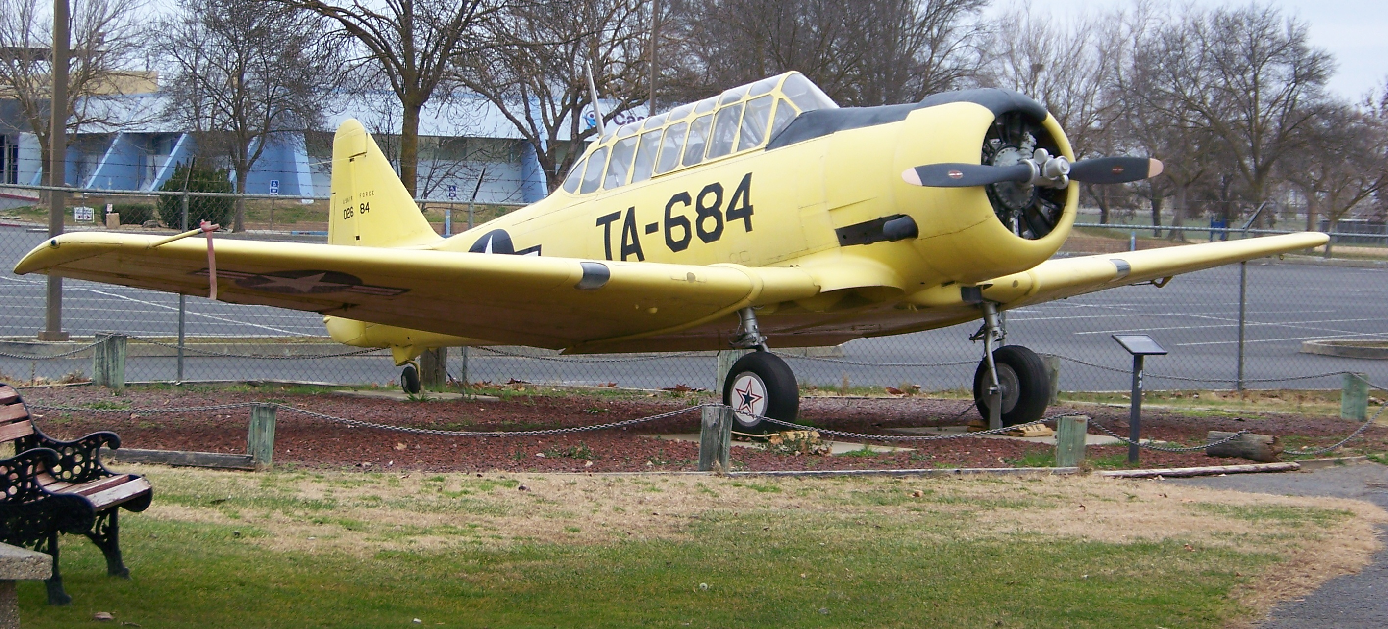 A T-6 Texan on display at the Castle Air Museum in Atwater, California.